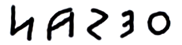 Inscription Thesan on a bronze mirror